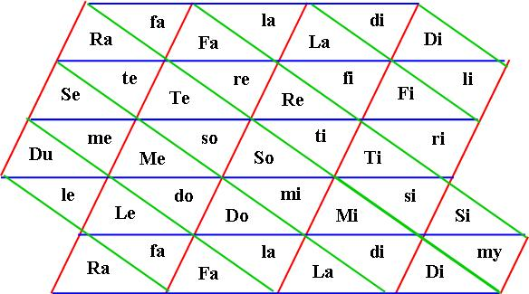 "Chart of the Regions" aligned with an isomorphic keyboard.